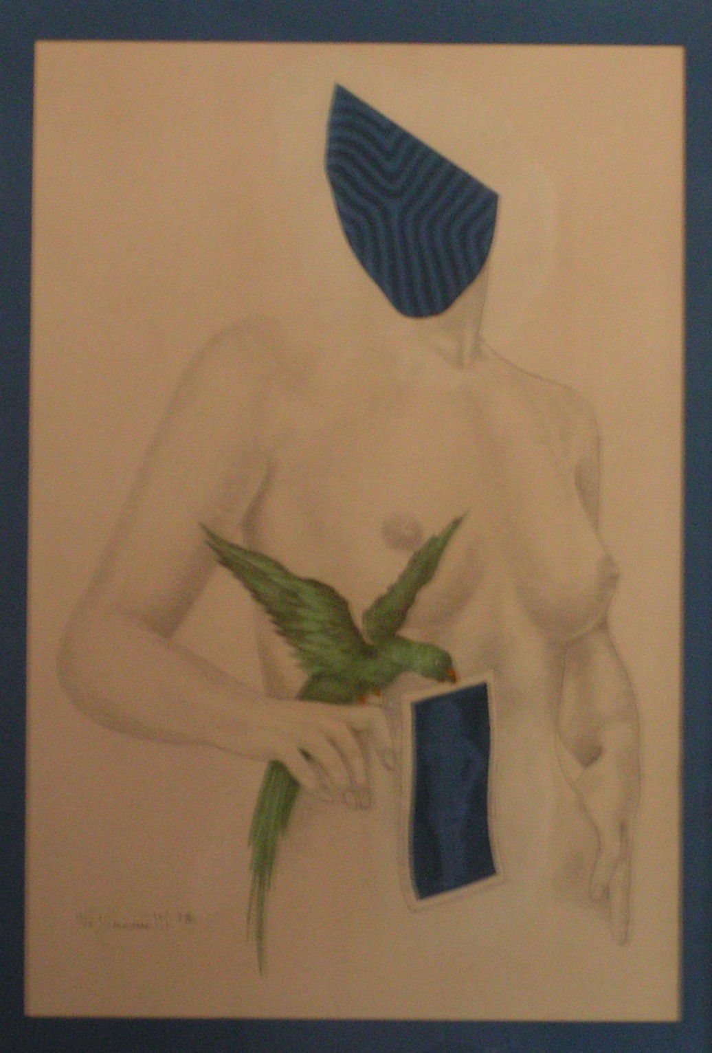 Work of the Italian painter William Girometti, untitled, 1978, graphics of his own invention, cm. 50x70 - owned by his daughter.